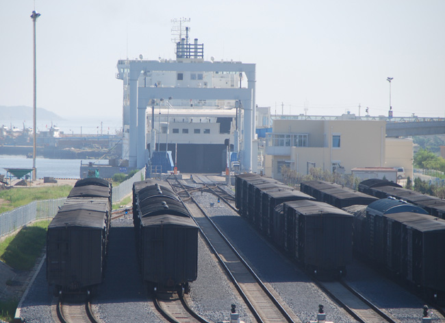 Bohai Train Ferry - Lushun West Station B (Freight Cars on the Tracks). Please discard "Bohai_Train_Ferry_-_Dalian_West_Station_B.jpg" file that was uploaded earlier